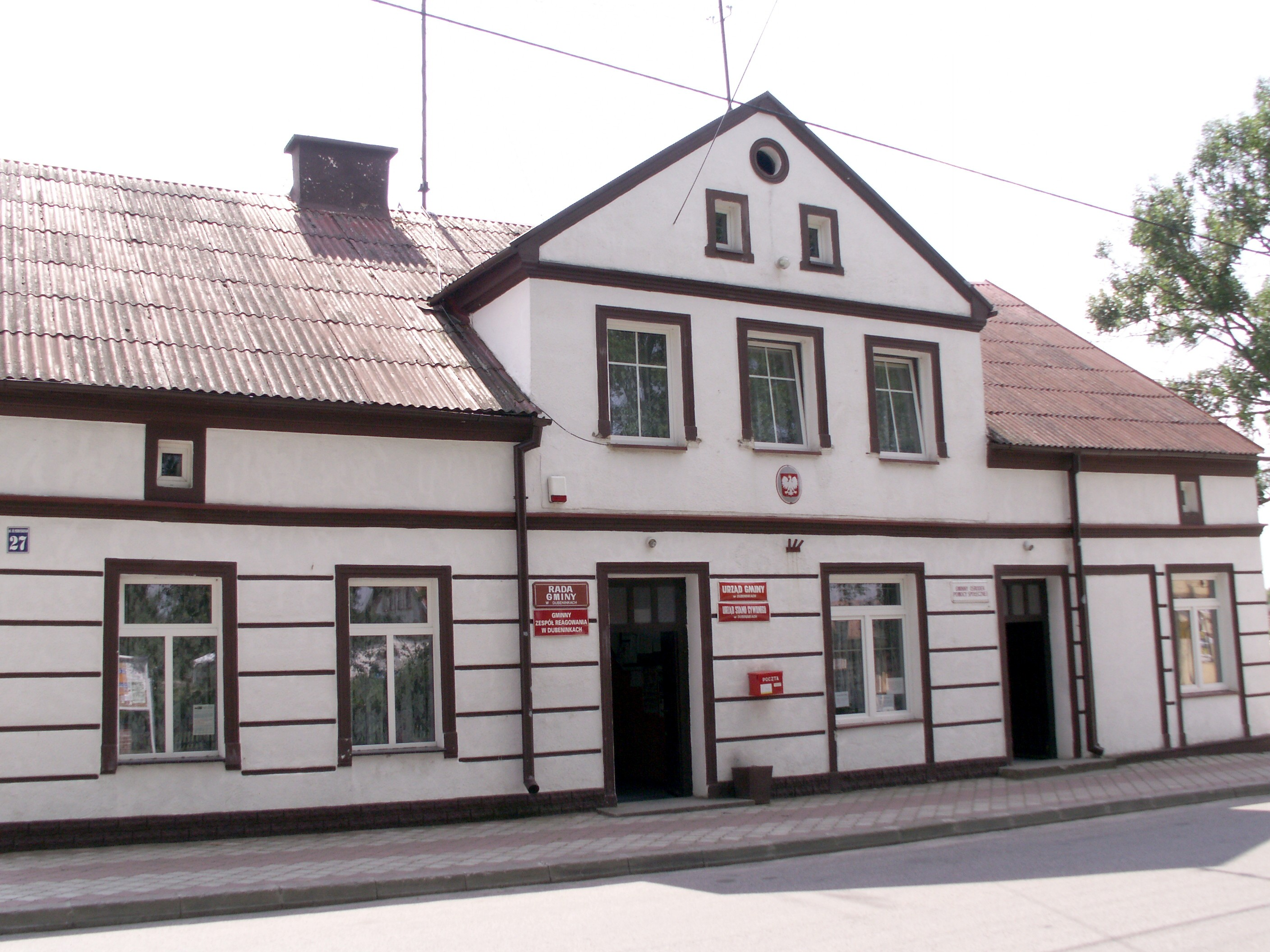 Dubeninki